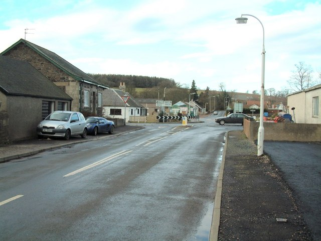 Pitscottie crossroads. Looking north towards Cupar